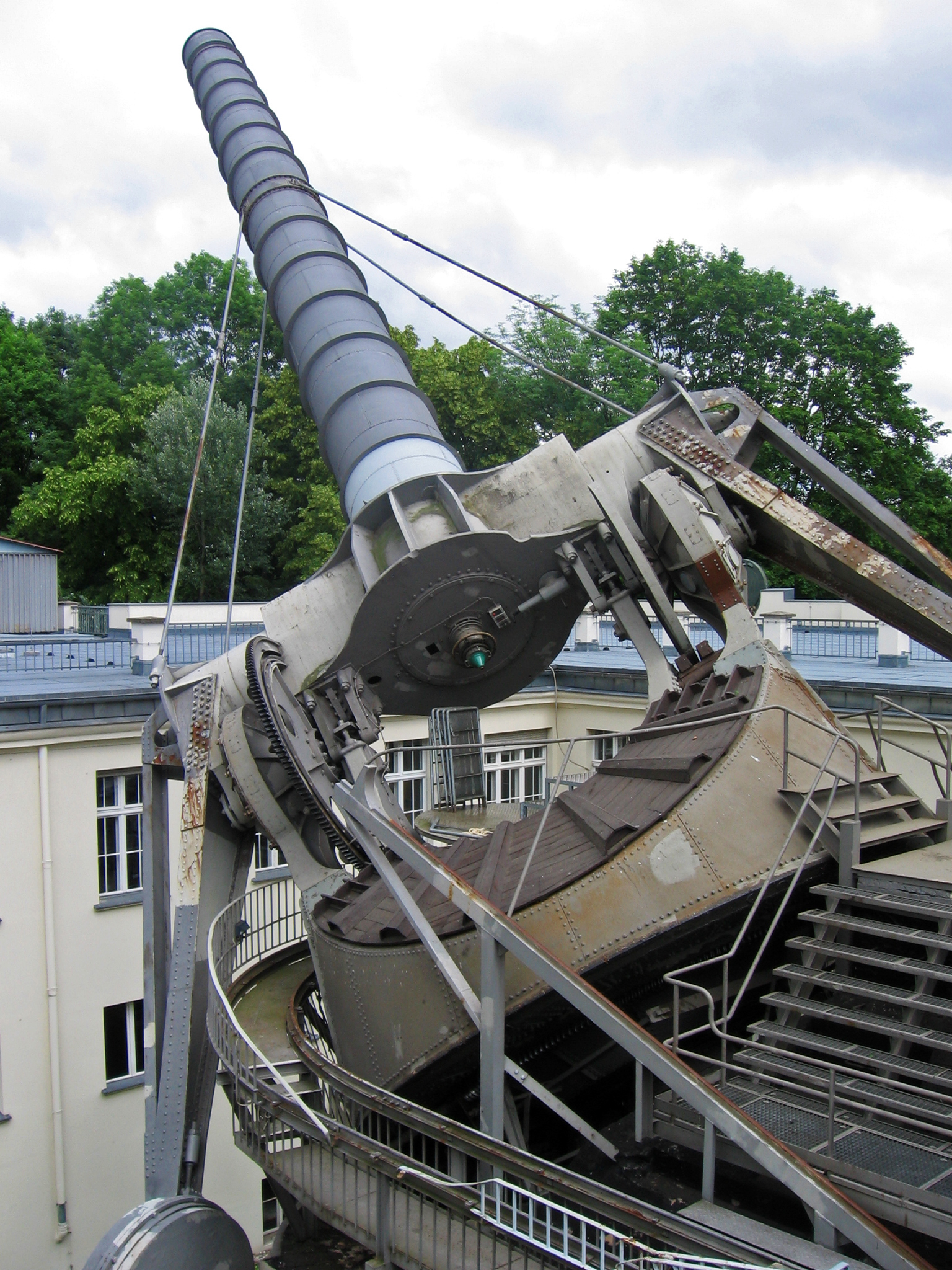 The Great Refractor at the Archenhold Observatory, Berlin, Germany.